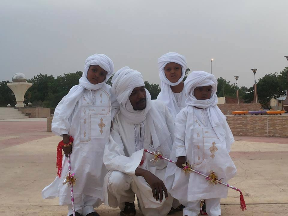 Toubou are people who live between three countries Libya, Chad and Niger in the Sahara desert. they have their own language. they are one of the oldest nation in Libya.